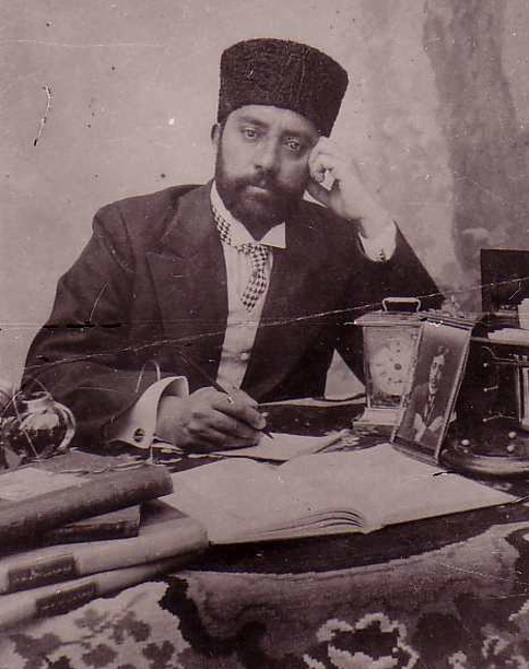 Mahmoud Tarzi (August 23, 1865 in Ghazni - November 22, 1933 in Istanbul) was one of Afghanistan's greatest intellectuals. He is known as the father of Afghan journalism. As a 1975 source, this picture taken after his publishing of Seraj-al-Akhbar, This newspaper was published bi-weekly from October 1911 to January 1919.